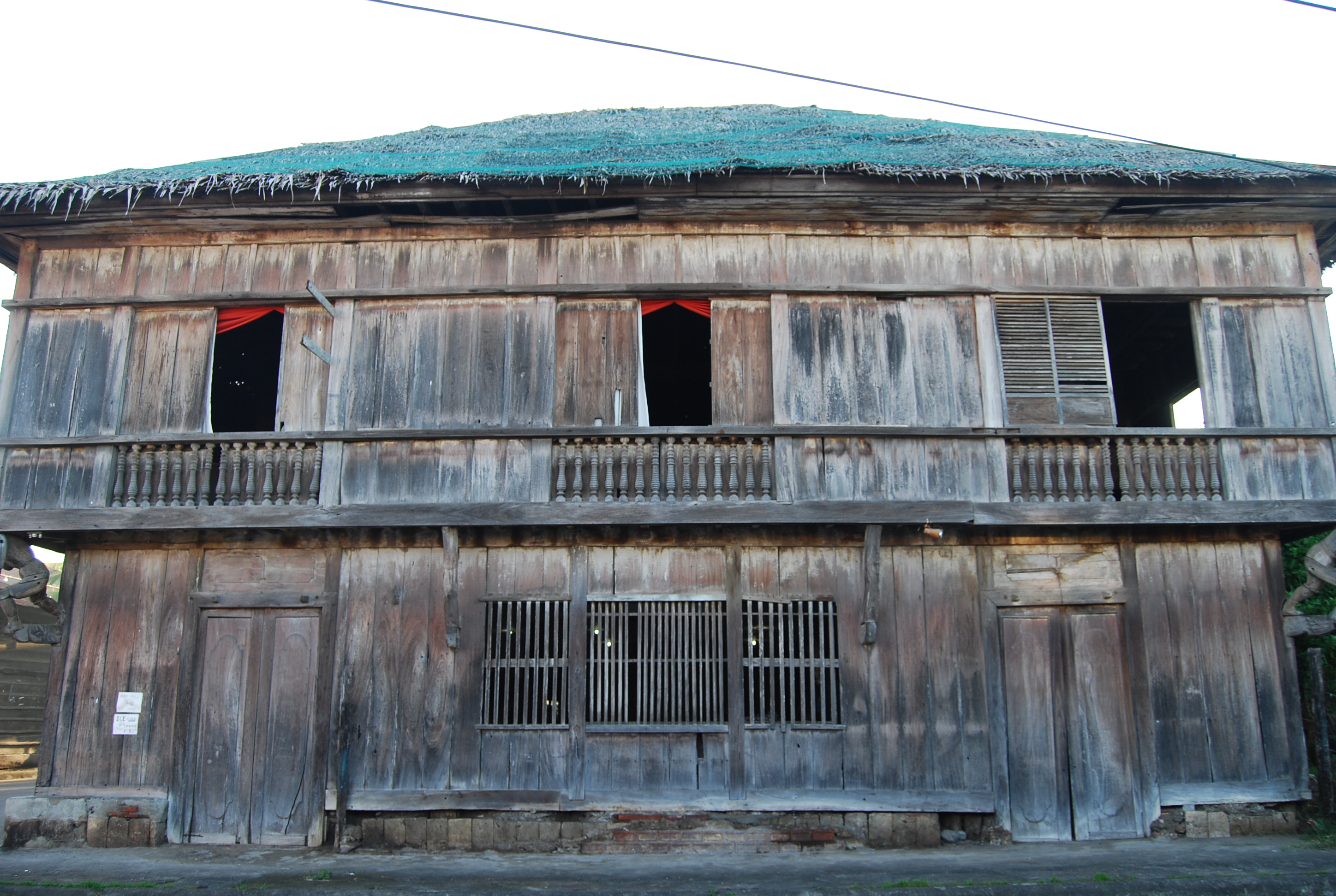 Vega Ancestral House Features, Details and Neighboring Heritage Houses